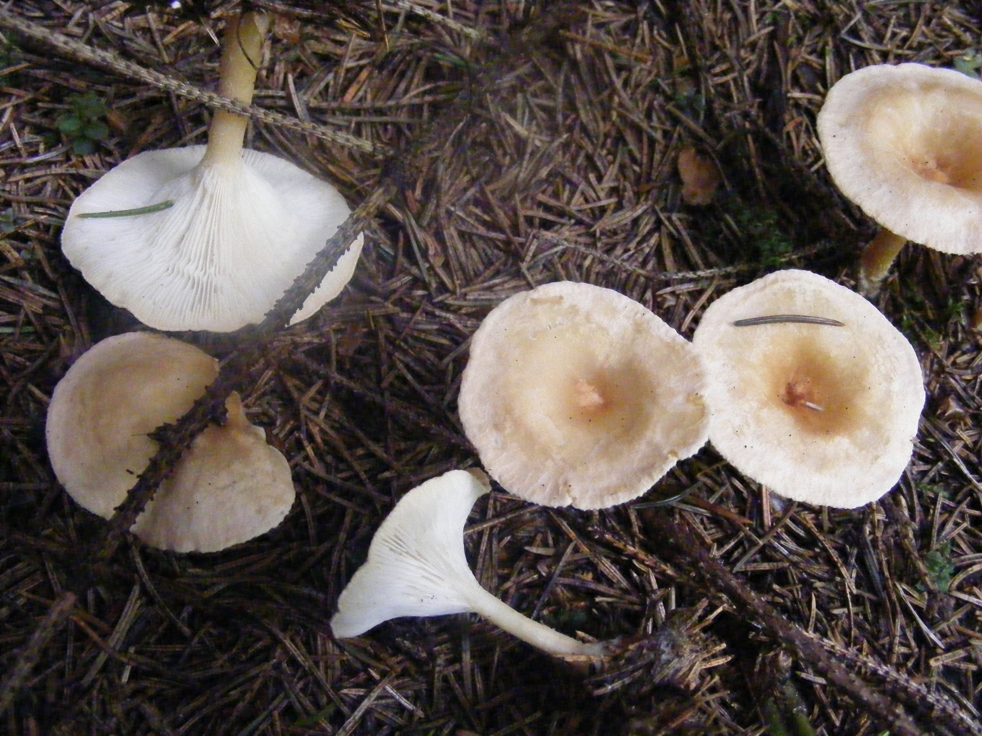 Clitocybe gibba